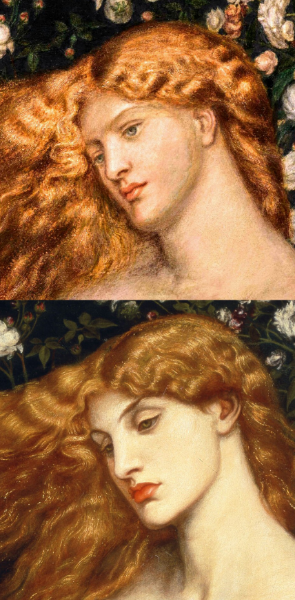 Comparison between Fanny Cornforth's face and Alexa Wilding's face.